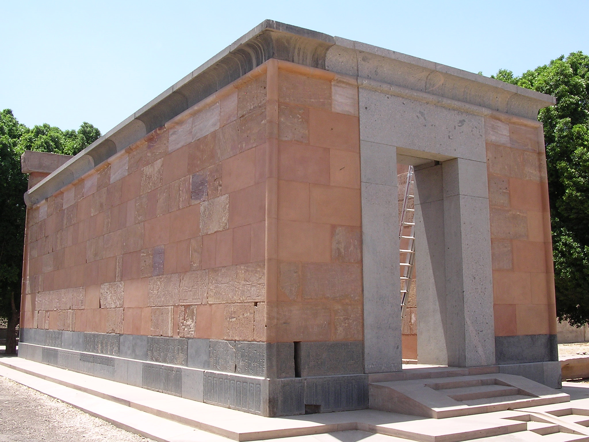 The red chapel of Hatshepsut (Karnak, open air museum) Date:April 24, 2005